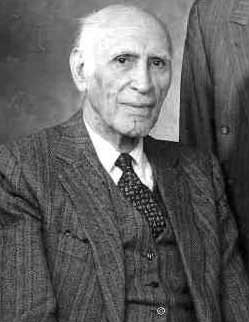 Yahya Adl